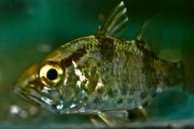 Glossamia aprion aquarium specimen, USA